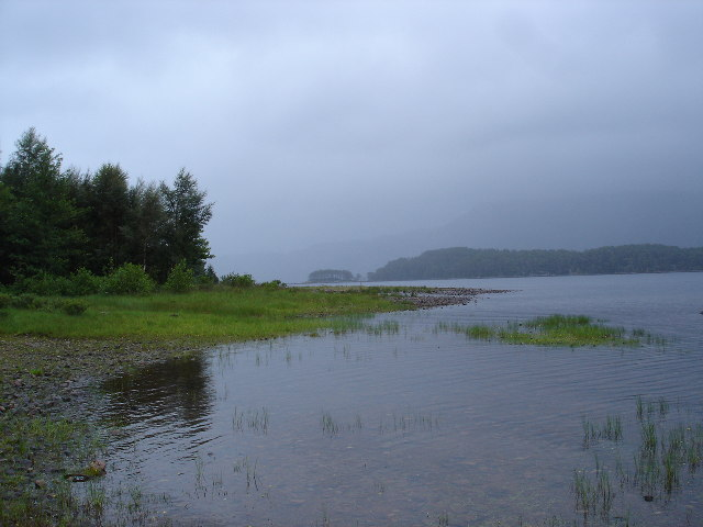 Shoreline Loch Maree. Islands of Loch Maree in the background.